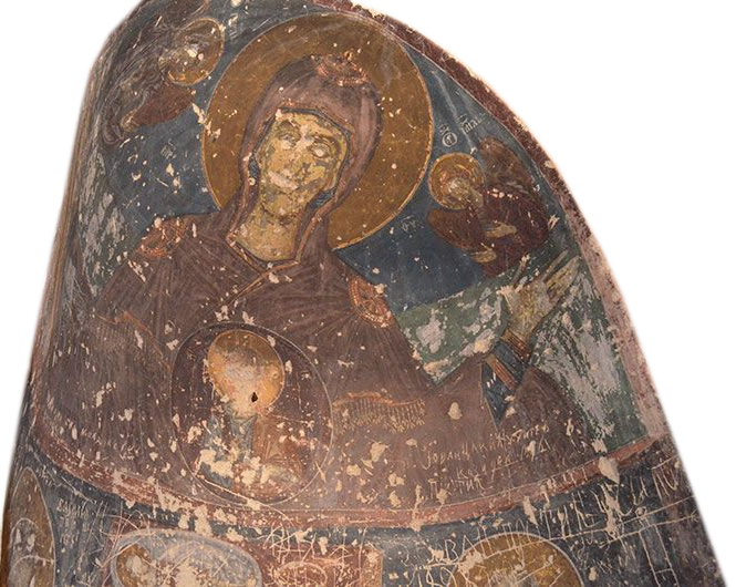 Dormition of the Mother of God Church in Dolna Tarnitsa Detail